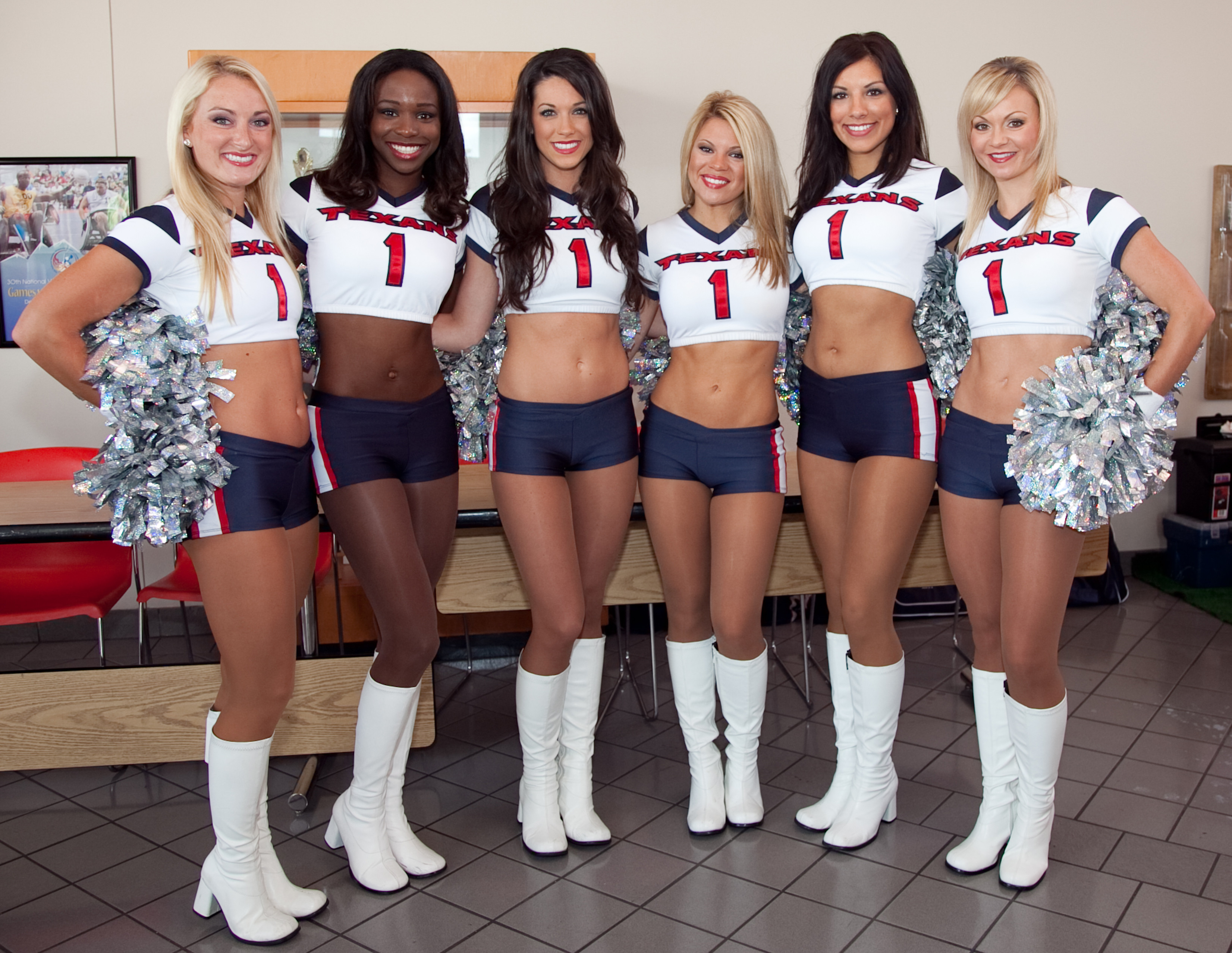 Houston Texans cheerleaders at an event to thank U.S. troops for their service as part of the Wounded Warrior Program.